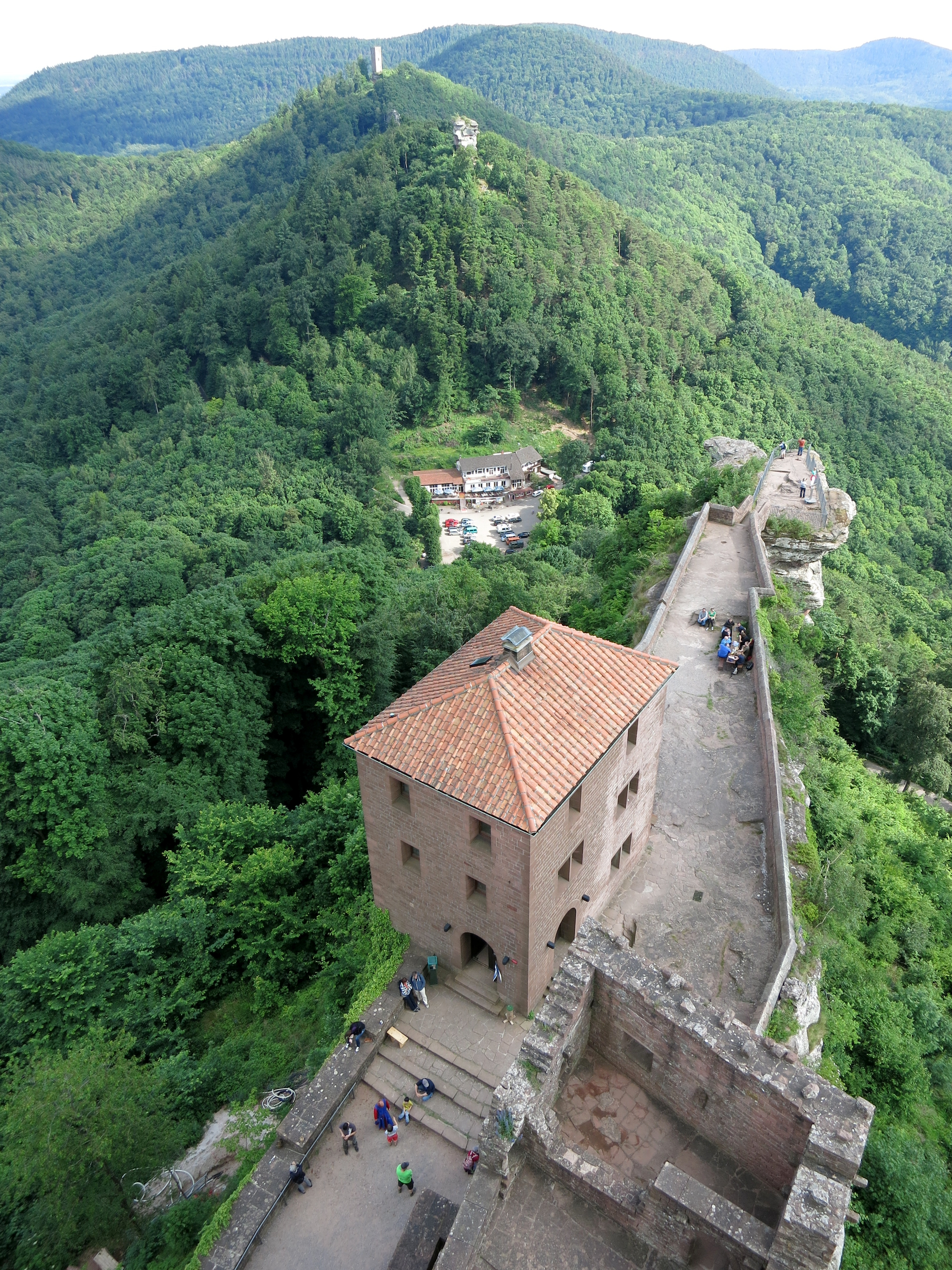 View from castle Trifels towards castle Scharfenberg